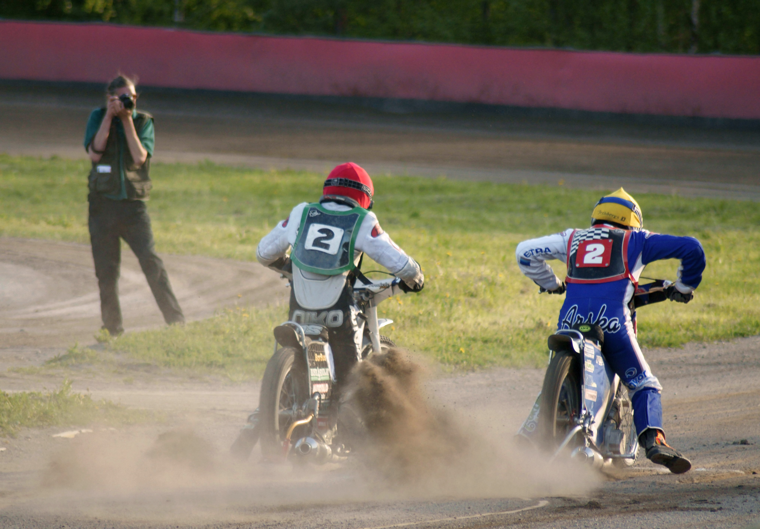 Speedwayriders Niko Siltaniemi (team Jokerit, Kauhajoki) and Aarni Heikkilä (team Paholaiset, Pori) in start number 18 in Speedway Extraliiga -competition in Yyteri speedway venue.